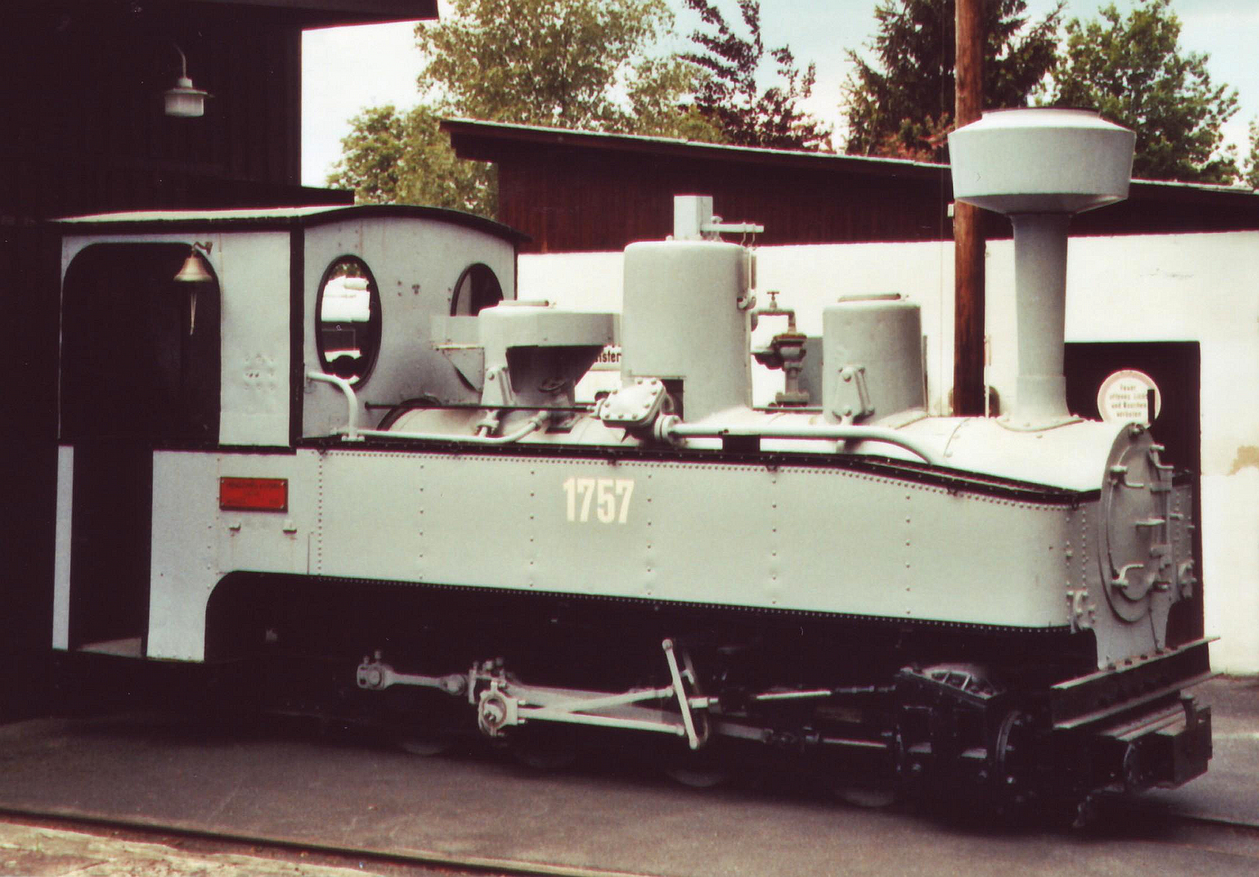 German World War I battle field narrow gauge steam locomotive HF No. 1757 (built Henschel, no. 15556, 1917) at the German Steam Locomotive Museum (DDM), Neuenmarkt-Wirsberg (Bavaria)